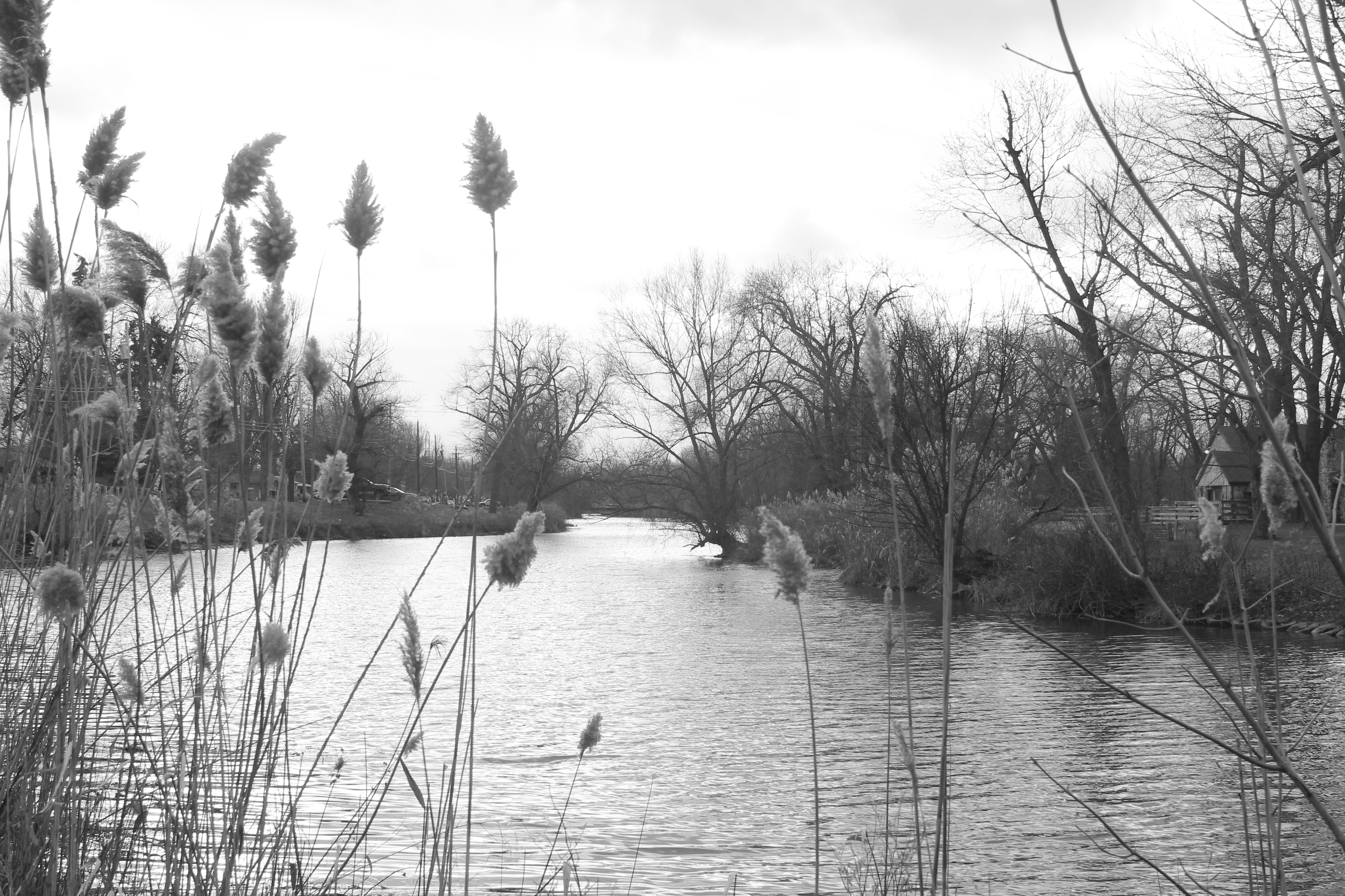 Ellicott Creek